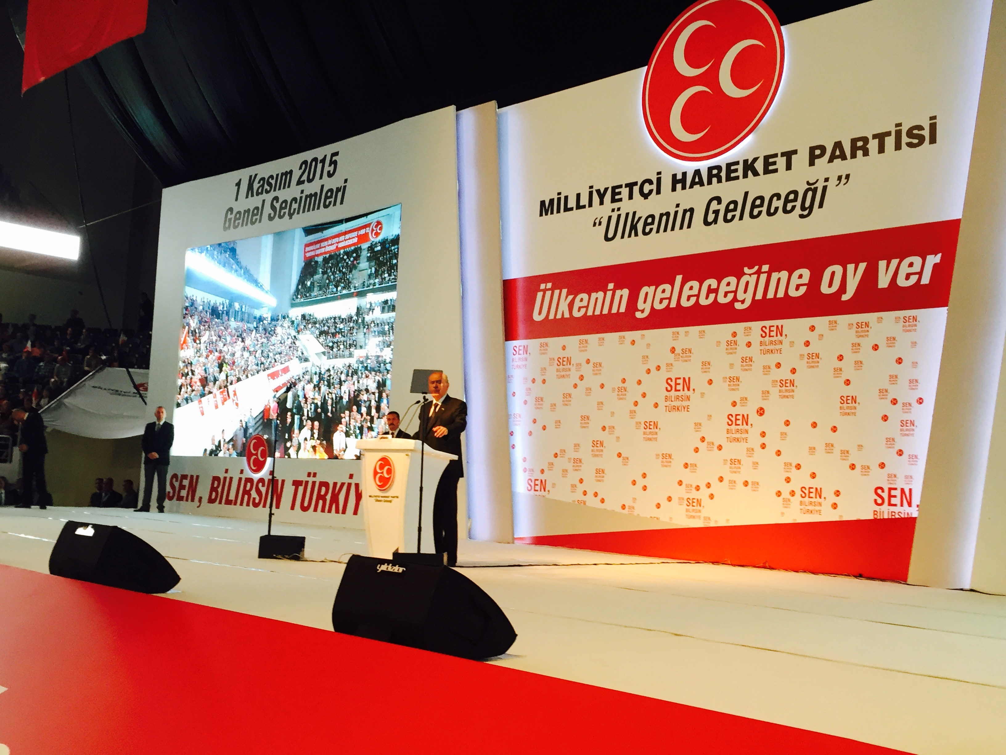 The Turkish Nationalist Movement Party (MHP) announcing their election manifesto ahead of the 1 November 2015 general election, on 3 October 2015.